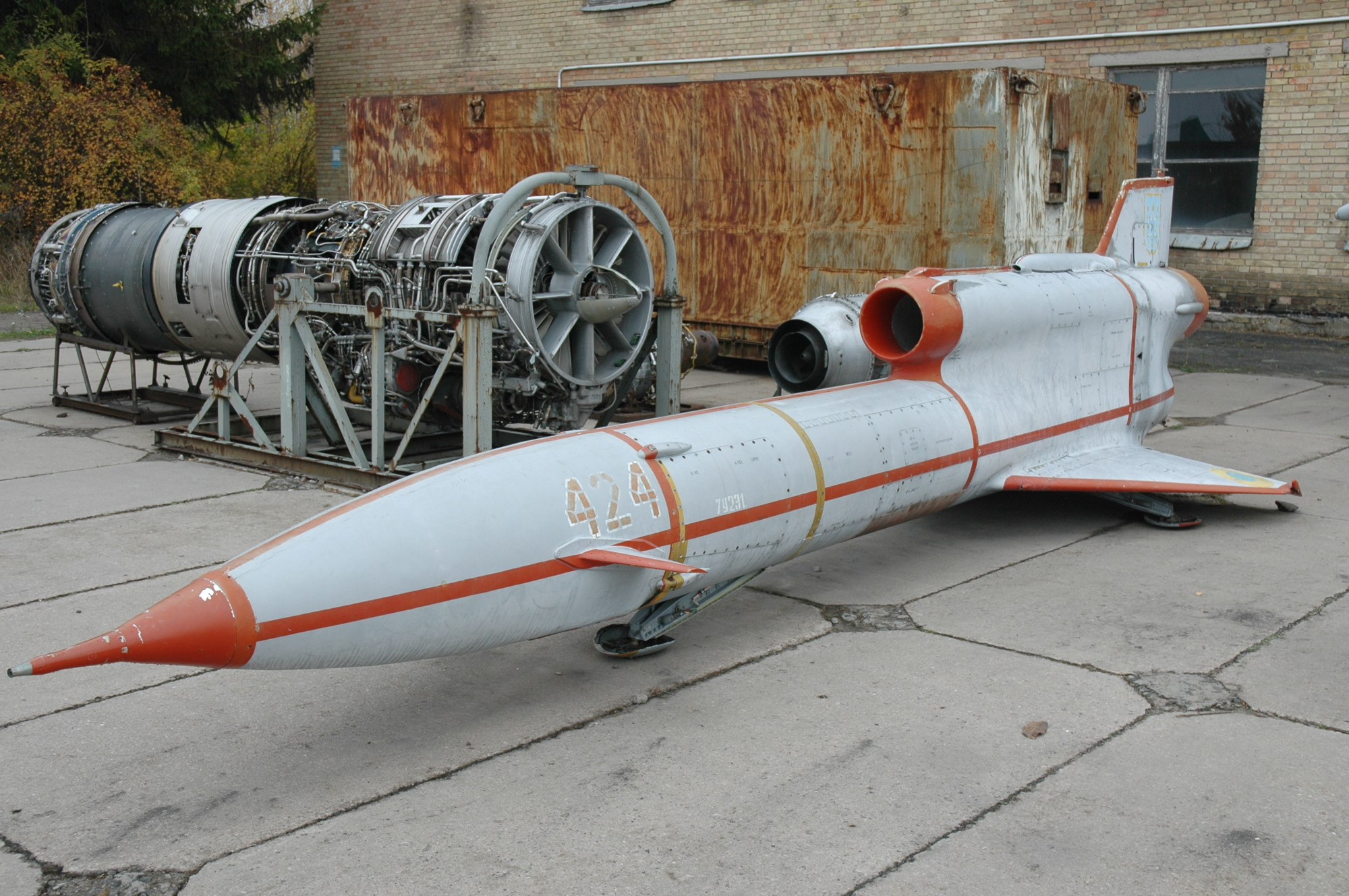 Tu-143 Soviet reconnaissance drone (Kyiv, Ukraine)